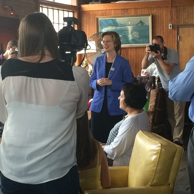 During her campaign for the United States Senate election in Georgia, 2014, Michelle Nunn visits Athens, Georgia. Here she holds forth at the Little Kings Shuffle Club in downtown Athens, as part of kicking off a statewide fundraising effort for that day.